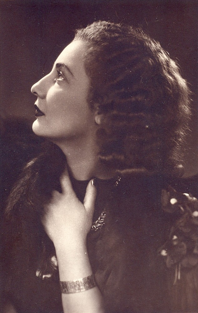 Bulgarian actress Sultana Nikolova